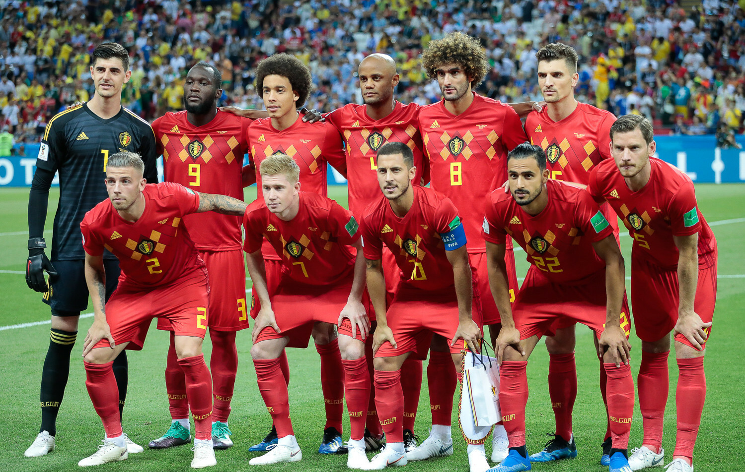 The Belgium national team line-up before the match against Brazil, 6 July 2018.